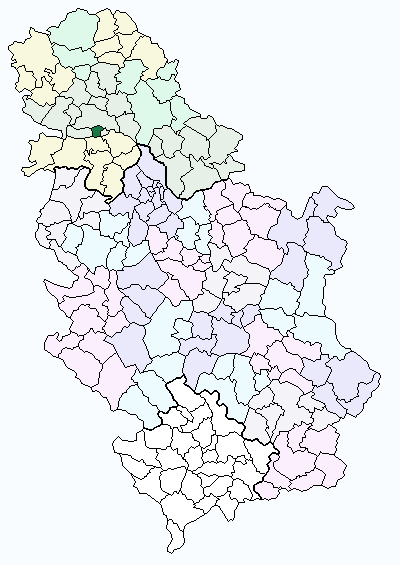 Category:Maps of Serbia Category:Maps of Novi Sad